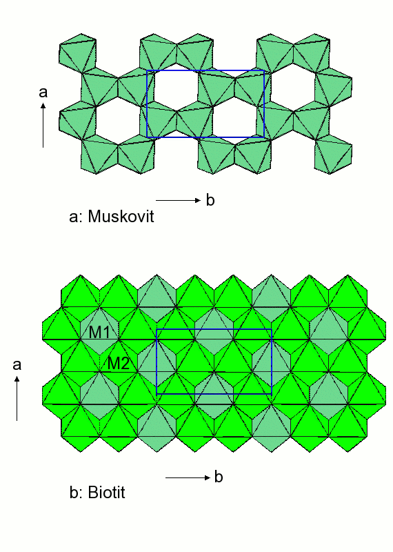 MO-octahedra sheet of dioctahedral mica (muscovite) and dioctahedral mica (annite) viewed down the crystallographic c-axis.